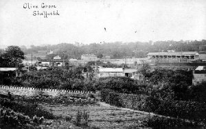 This is a picture of Olive Grove Stadium in Sheffield, England.